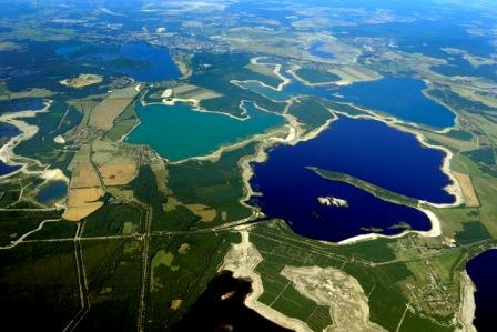 View of the Lusatian Lake District, Germany